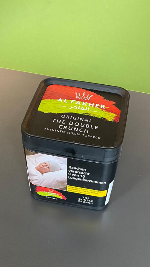 A Pack of Al Fakher The Double Crunch (formerly Double Apple Flavour) Mu´assel Tobacco